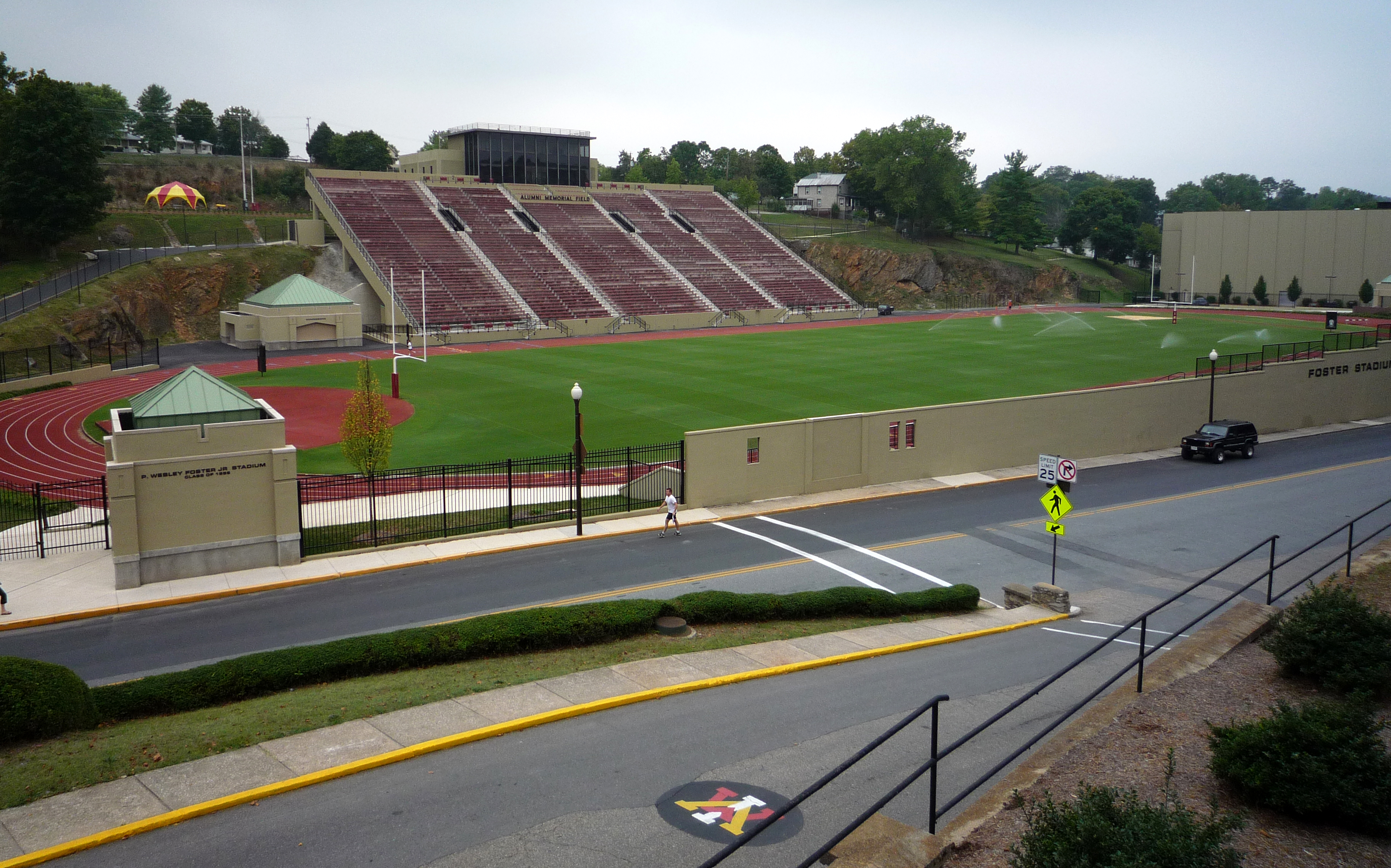 Alumni Memorial Field on the campus of the Virginia Military Institute in Lexington, Virginia.